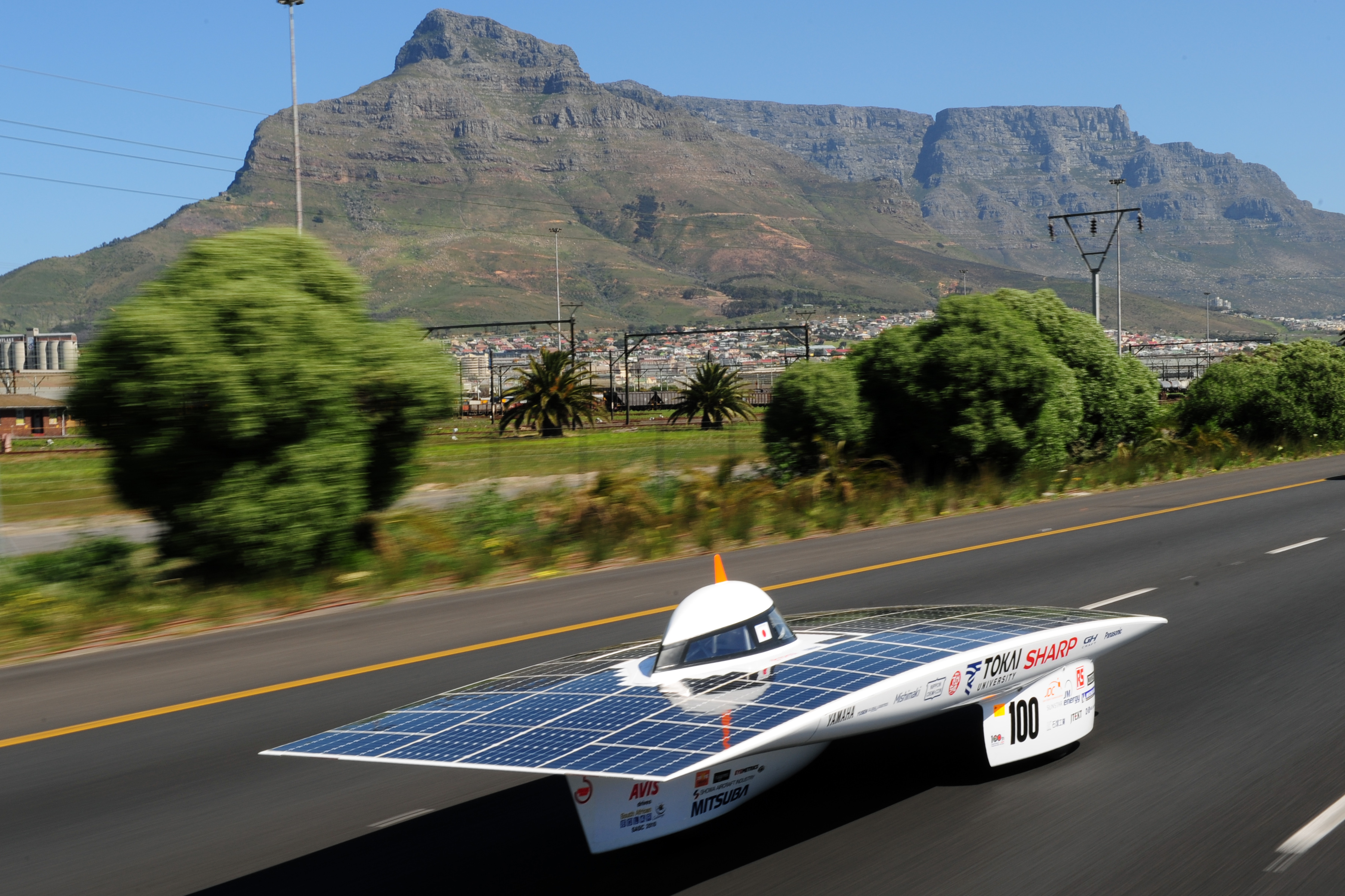 Tokai University Solar Car Team (Japan) participated in South African Solar Challenge (SASC) 2010 and was announced winner again. The solar car "Tokai Challenger" arrived in Cape Town, a city famous for its "Table Mountain", on 25th September 2010.